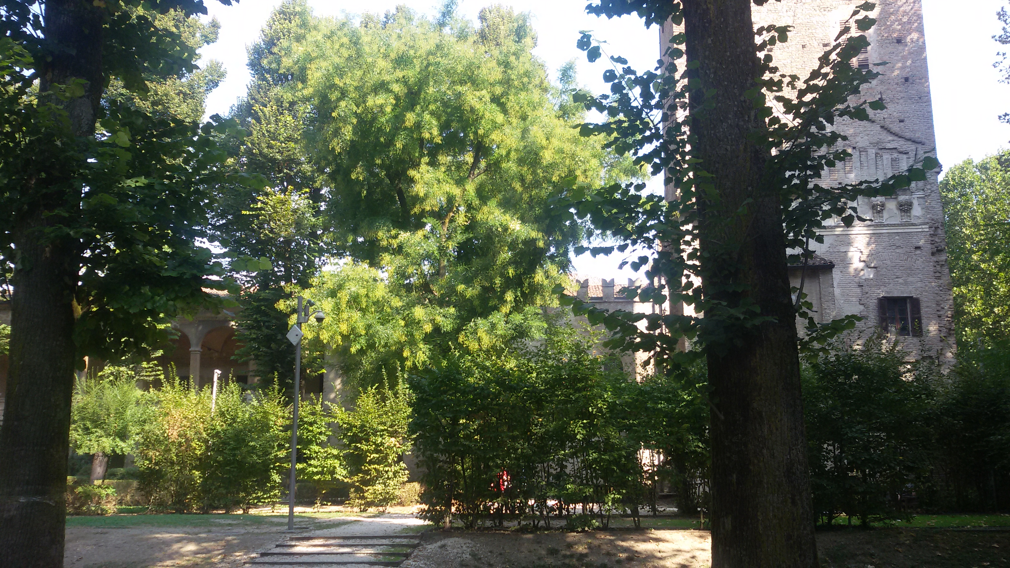 Castle